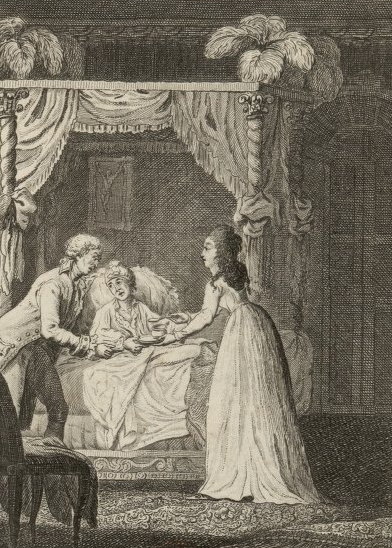 The death of the Prince of Lamballe